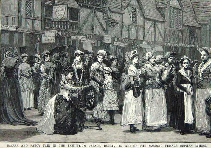 Masonic Female Orphans School bazaar, held in Dublin in 1882